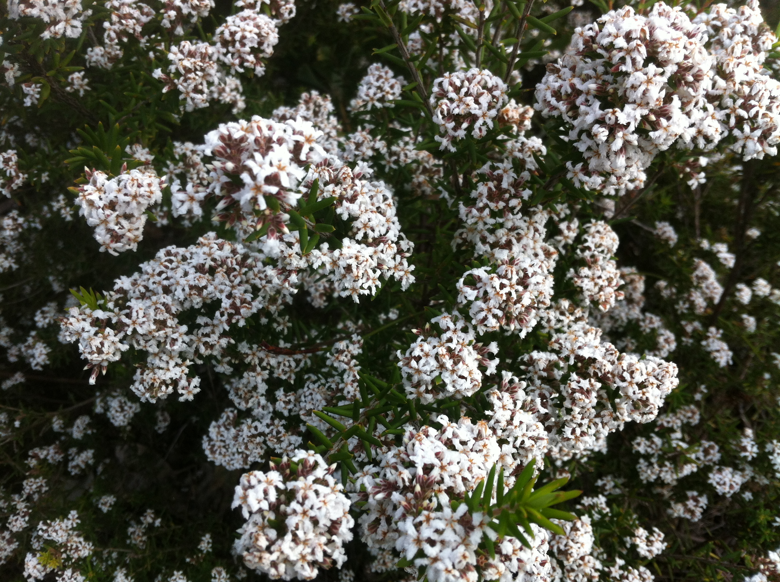 Taxandria juniperina flowers near Lower Kalgan